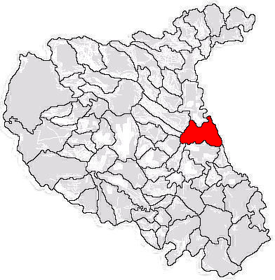 Map with limits of commune